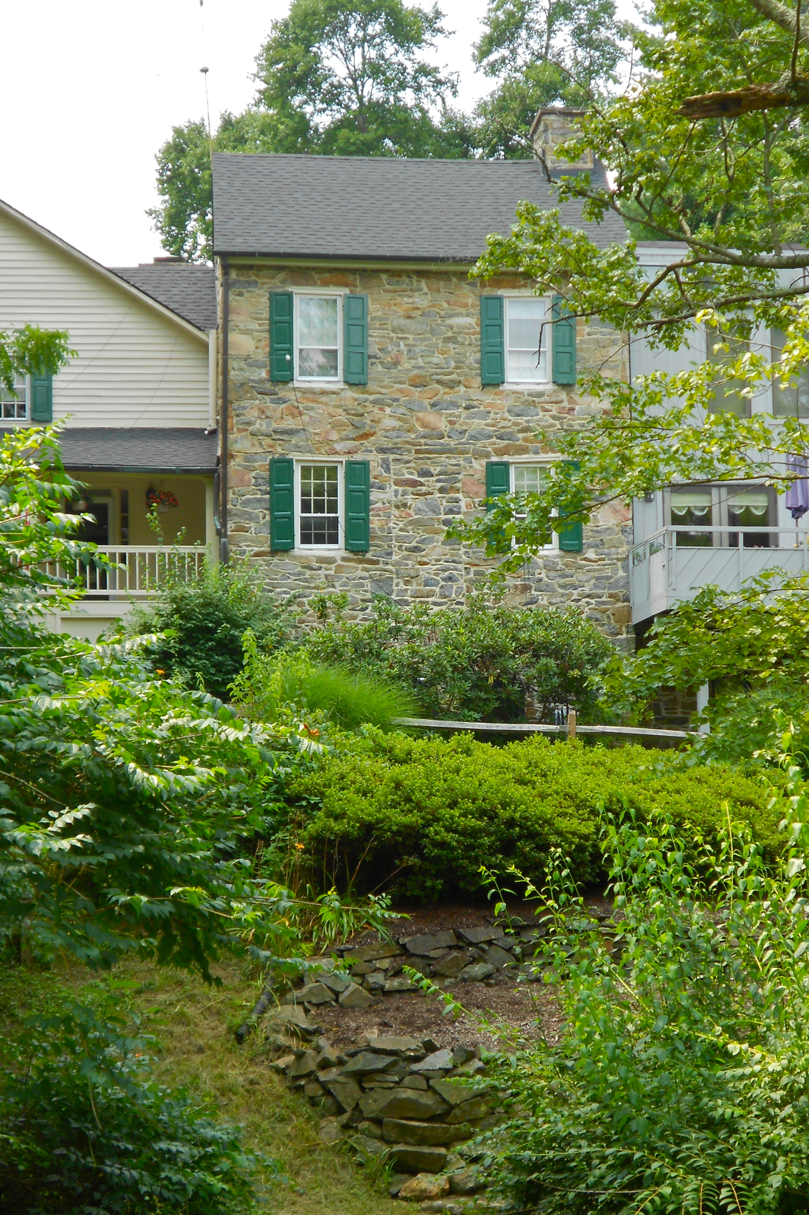 Mill Green Historic District, listed on the NRHP onJune 3, 1993. Located at the junction of Mill Green and Prospect Rds., near Street, Maryland. Up in the hills by a nice flat place on Broad creek. 10 historic buildings in the district, plus some new condo type buildings. This may be the Miller's house from the 1770s.